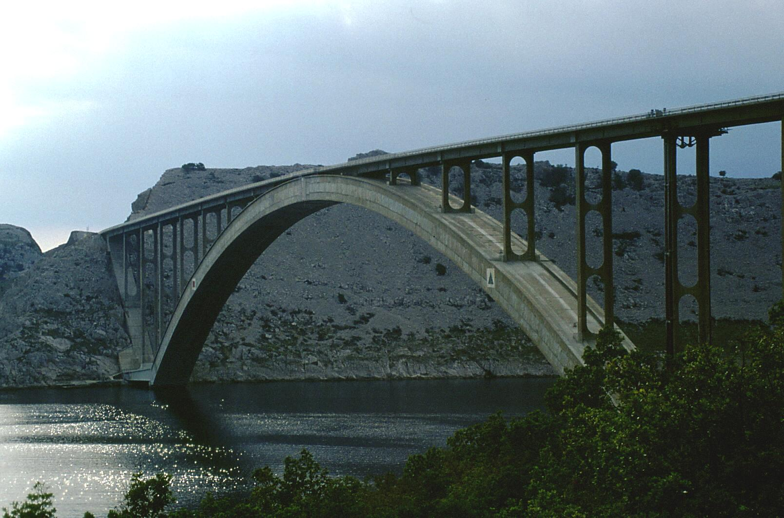 Krk-Bridge, Croatia